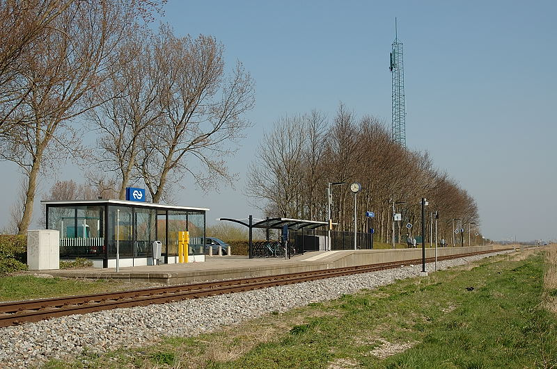 The railwaystation of Hindeloopen.